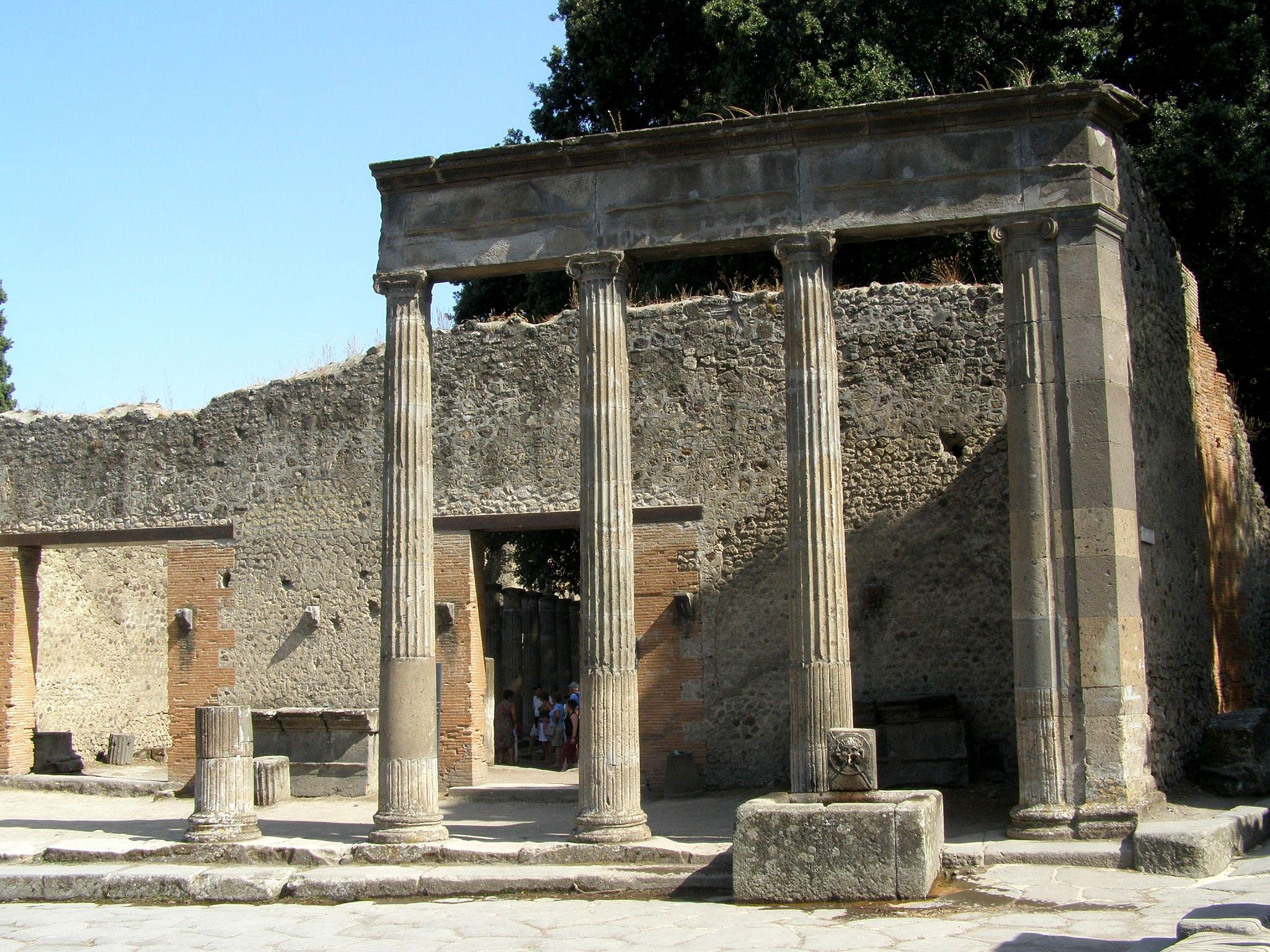 The so-called "Triangular forum" in Pompeii (Italy) in 2011.